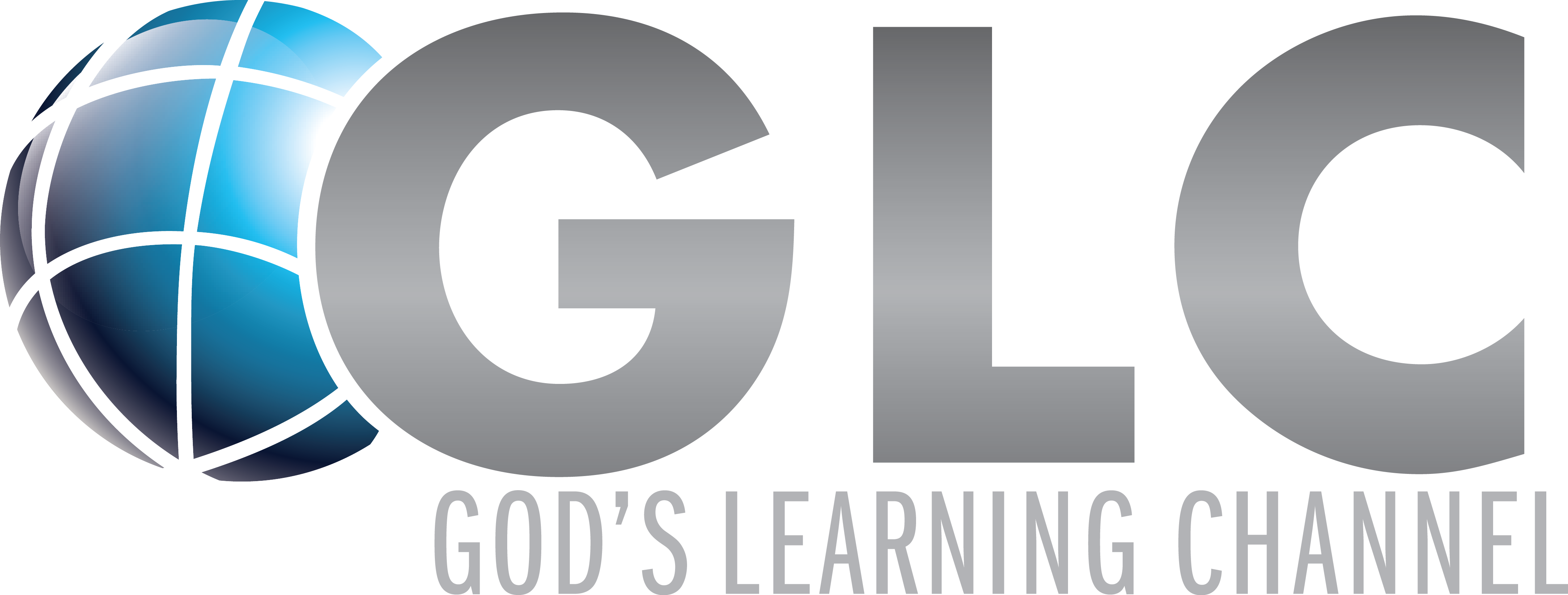 This is the logo for GLC.